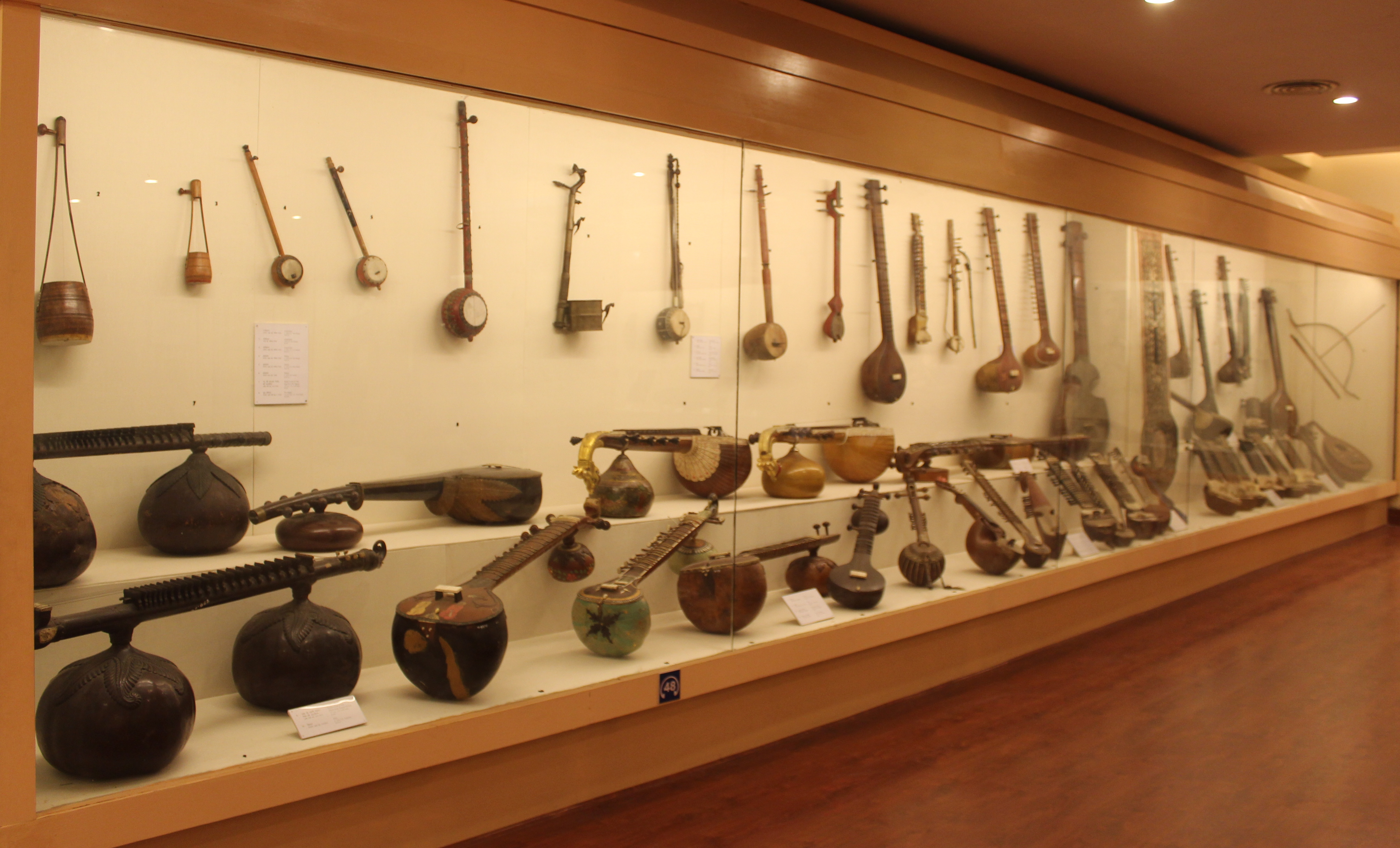 a view of the musical instruments gallery